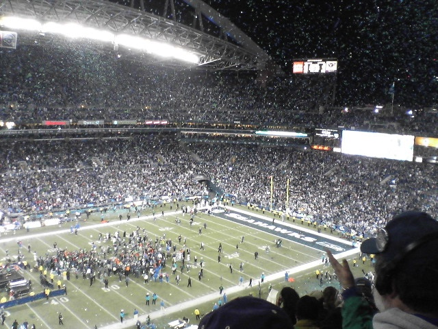 01:57, 13 June 2006 . . Insancipitory . . 640×480 (179,685 bytes) ("Kyle", Fellow Seahawks Season Ticket Holder. The picture was taken at the game, at my request, on his phone when the batteries in my camera wore out. Subsequently the picture was sent to me. While the NFL does have a fairly strict policy regarding the use of it's many likenesses, I believe that this specific snapshot of the game represents 'fair use.' Surely, I'm permitted to communicate this moment in my life to others, particularly in an informative, educational context (such as The 2005 Playoffs second on the Seattle Seahawks page). I have asked Kyle by email if I may use the image for Wikipedia, and have received his approval.) 03:35, 13 June 2006 . . Insancipitory . . 640×480 (152,547 bytes) (Re-edit of previous file via Gimp.)